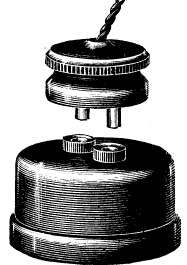 GEC Plug and Socket as illustrated in the 1893 GEC Catalogue